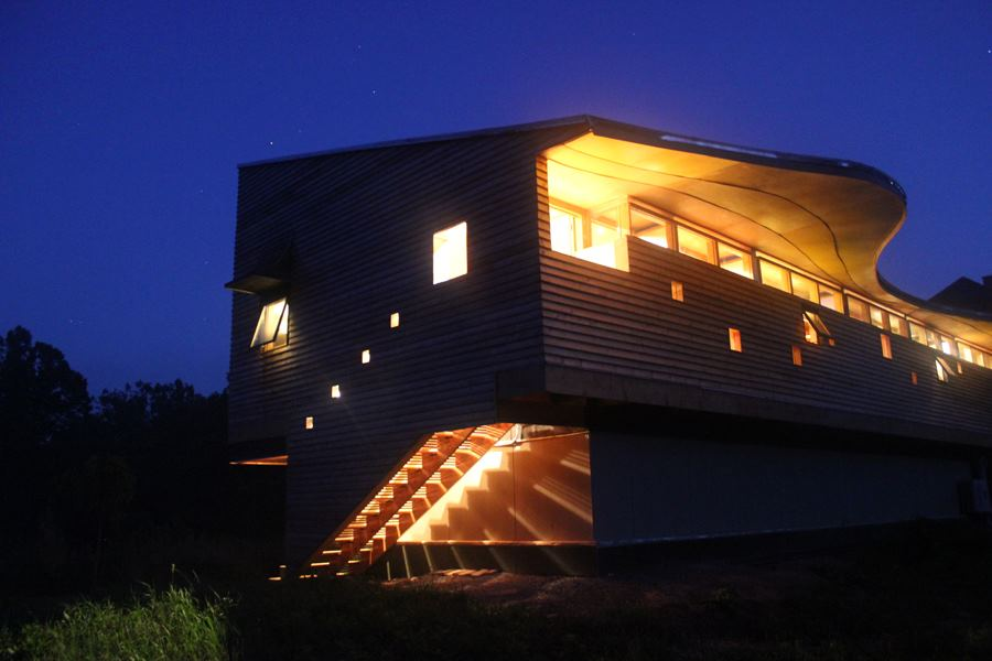 detail.